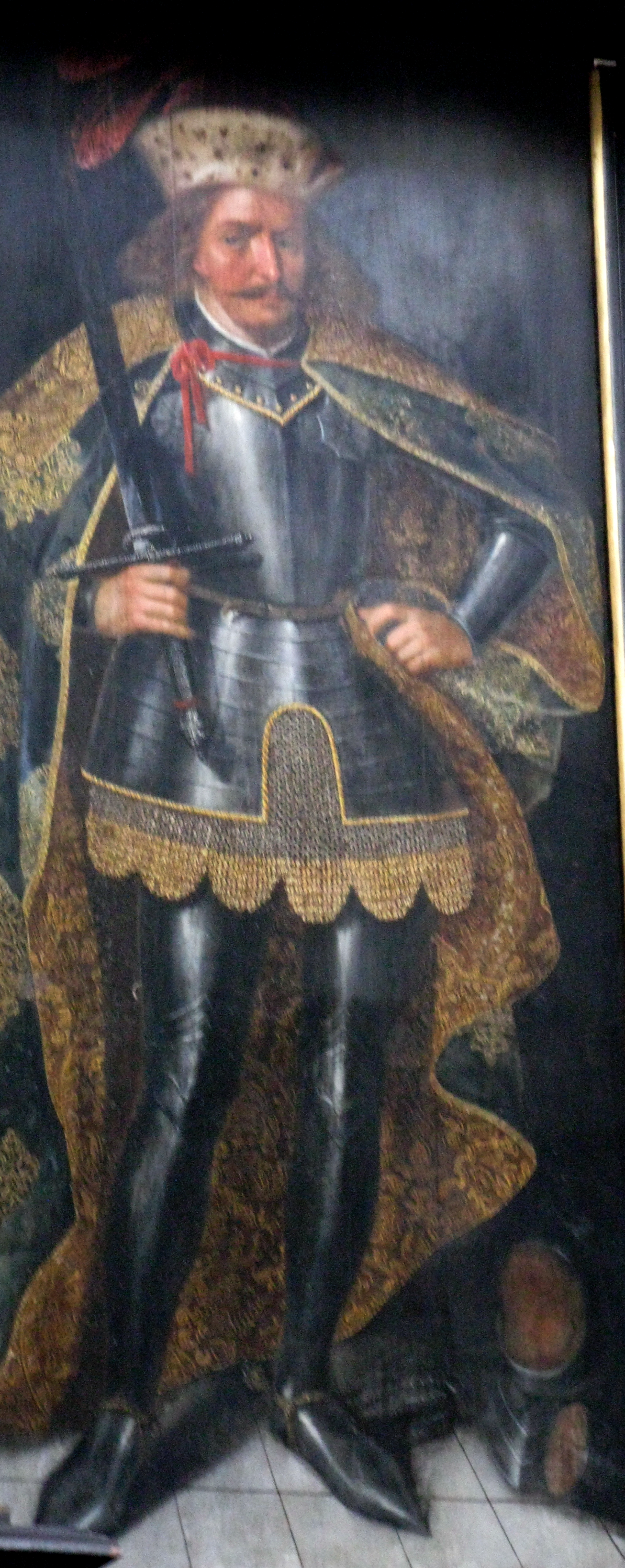 Mestwin II, Duke of Pomerania from a group of pictures showing the benefactors of Oliwa cloister.